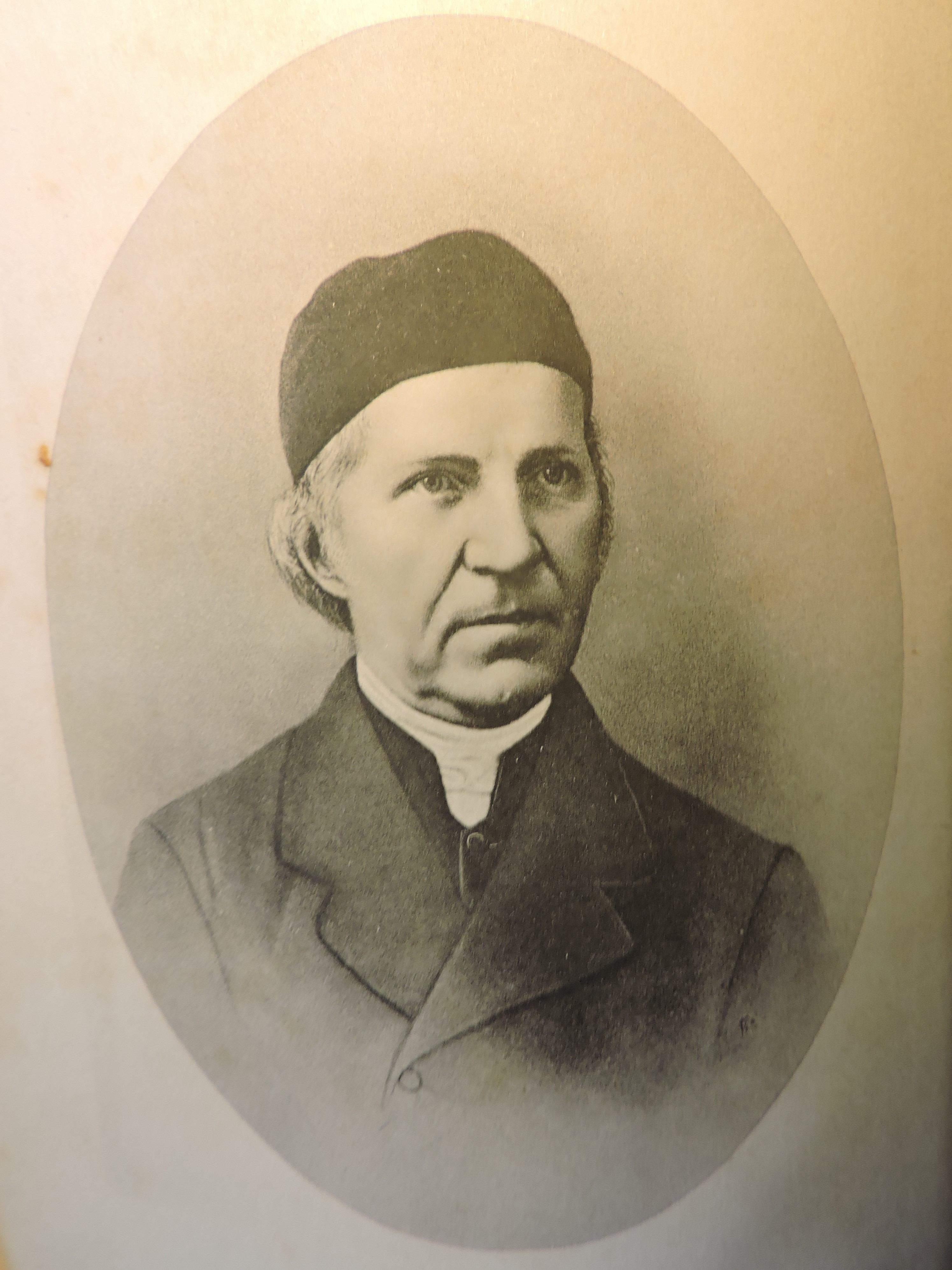 Friedrich Ahlfeldt